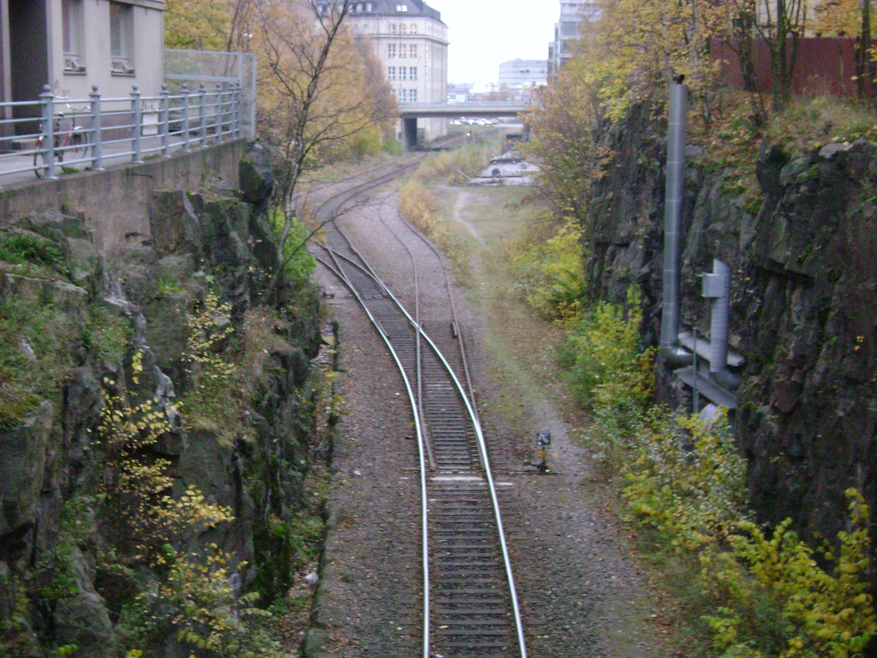 Part of Helsinki harbour railway. To right is former branch to Ruoholahti, middle track goes to Länsisatama harbour and to left is former branch to Merisatama.